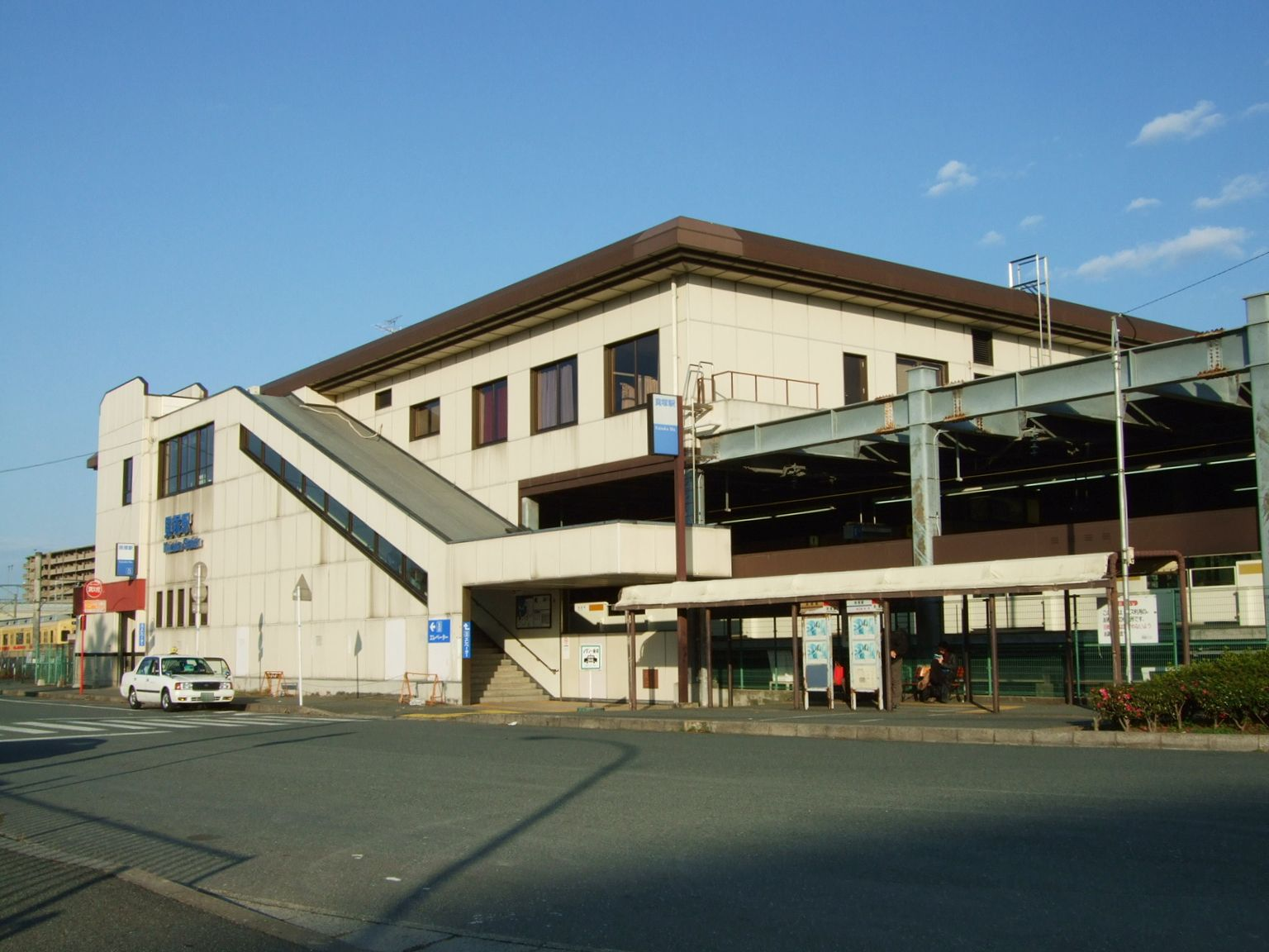 Kaizuka Station, Nishitetsu Kaizuka Line and Fukuoka Subway Hakozaki Line.